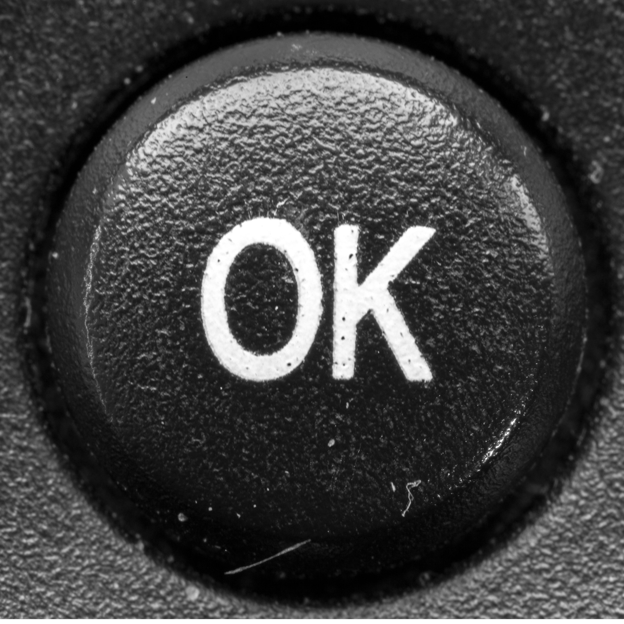 Macro photograph of the "OK" button on a TV remote control